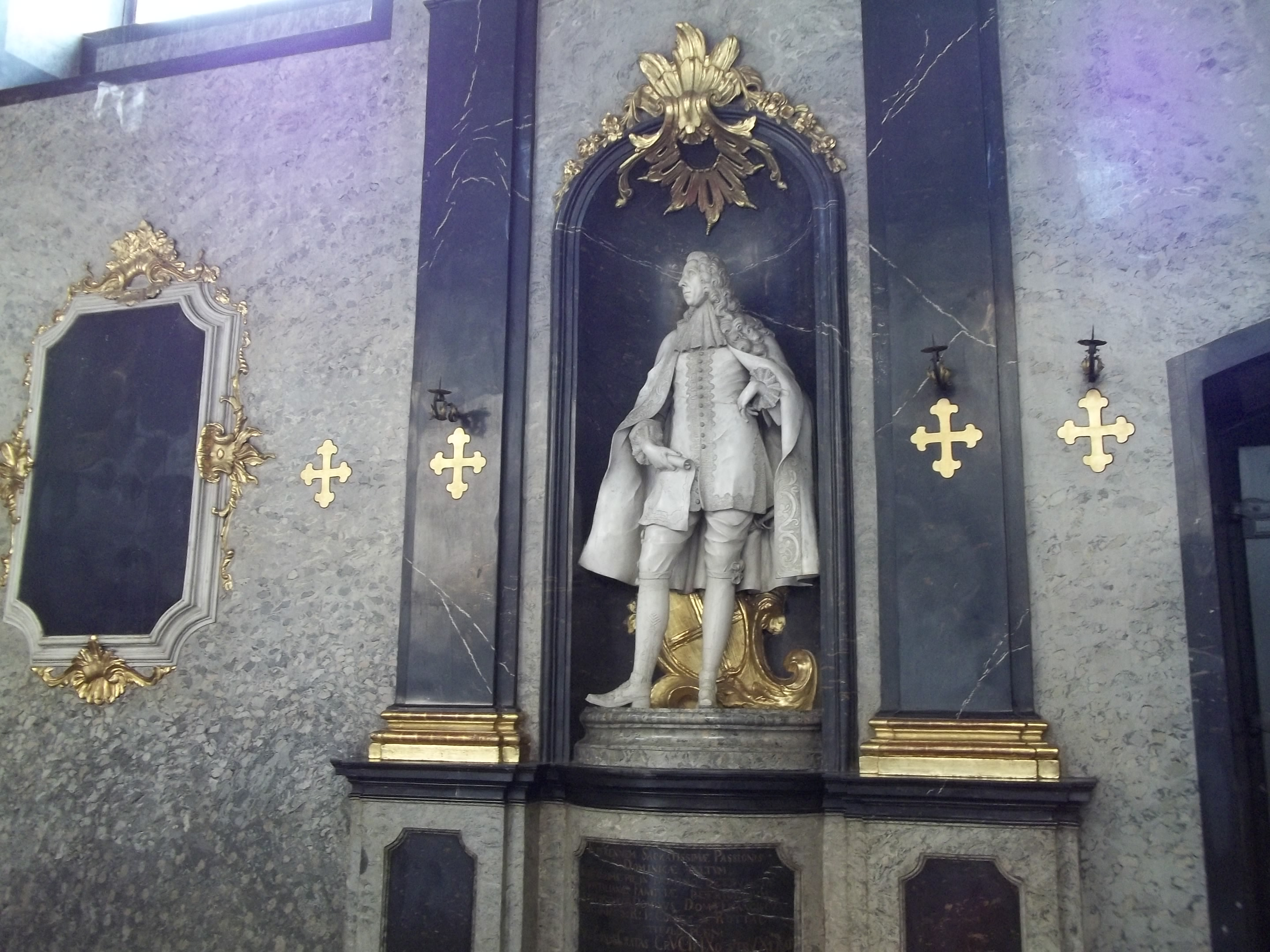 The file is named Jan z Rottalu, but it´s a statue of Count Franz Anton Rottal[1]